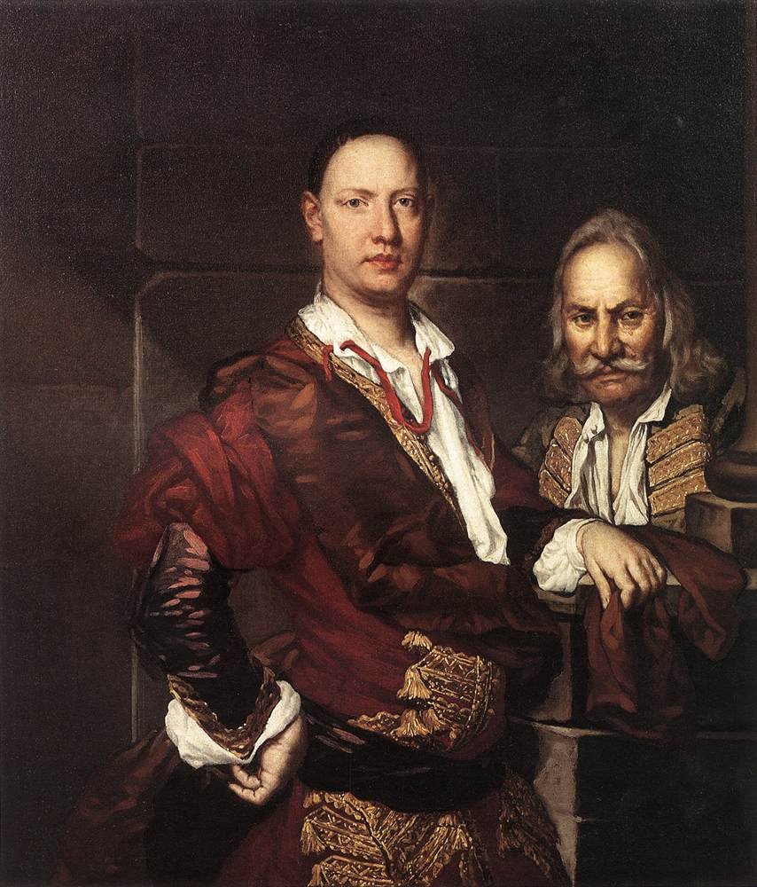 Another description: "Portrait of Giovanni Secco Suardo and his Servant", Accademia Carrara, Bergamo